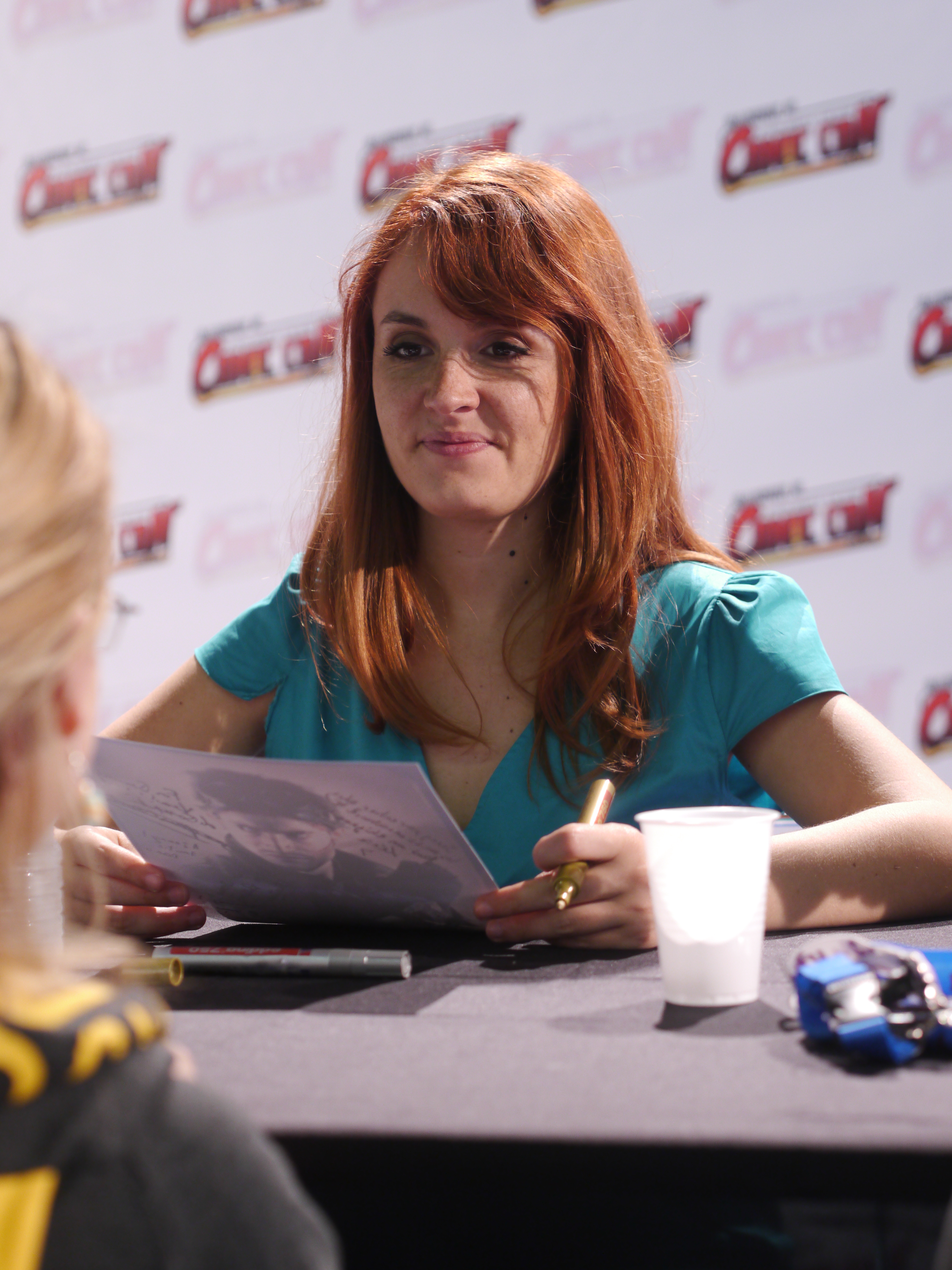 Japan Expo Festival, 14th impact